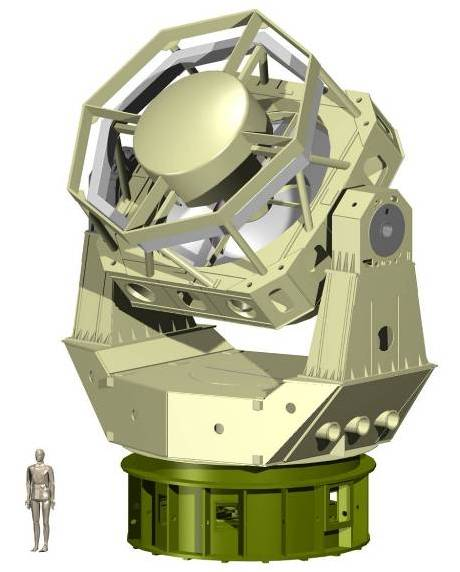 The Space Surveillance Telescope program (SST) is DARPA's ground based, advanced, optical system for detection and tracking of faint objects in space such as asteroids. It is also to be employed for space defense missions. The program is designed to advance, or expand, space situational awareness, and be able to quickly provide wide area search capability.